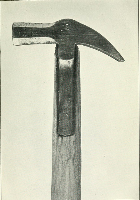 The exhibit for the prosecution no. 47 (full-size)